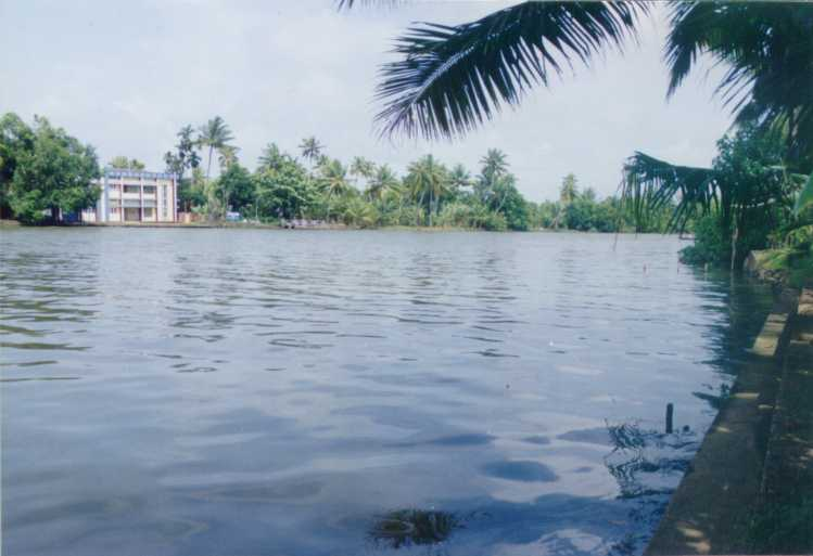 This is a view of river Pampa in Champakulam. This photo was clicked by me (user Bennyvk) and I have used this in the wiki page Champakulam ( Summary This is a view of river Pampa in Champakulam. This photo was clicked by me (user Bennyvk) and I have used this in the wiki page Champakulam (